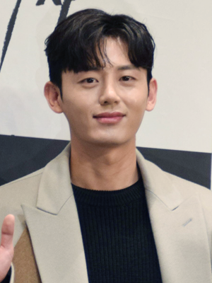 Lee Ji-hoon, Korean actor, in December 2019